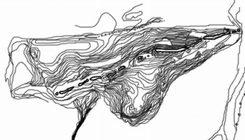 Detail of edited topographic plan of Cheshmeh Ali in Ray, Tehran.